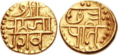 Maratha Empire: Chhatrapati Sivaji, Gold hon, c. 1674-80